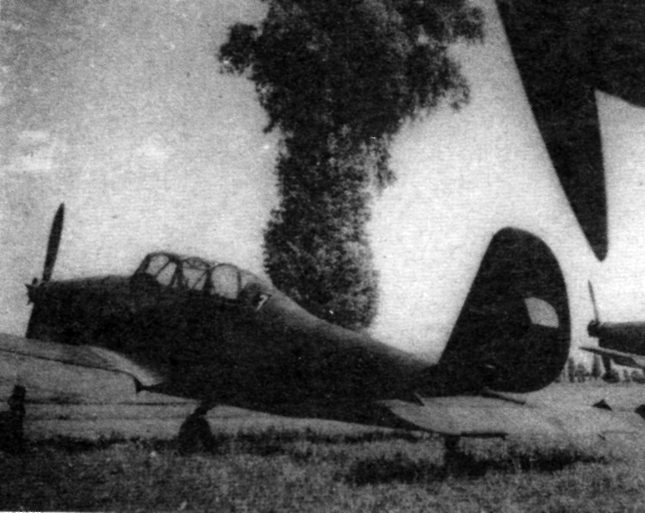 An Arado Ar 96 in Czechoslovakian markings, pictured on airfield somewhere in north-eastern Czechoslovakia during the spring of 1945.